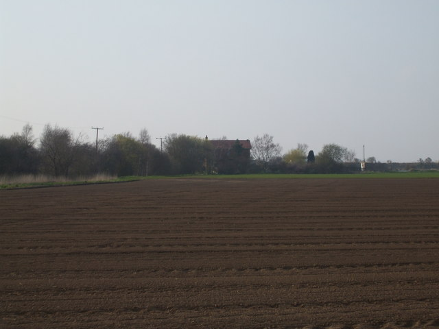 The Former Reedness Junction Station house, Swinefleet, East Riding of Yorkshire, England.